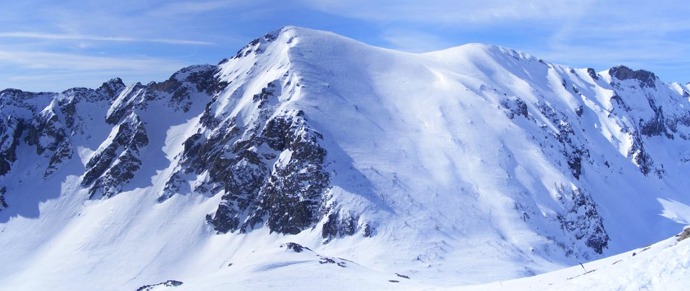 Mount Antoroto and Colla Bassa from Monte Grosso (Ligurian Alps, CN, Italy)